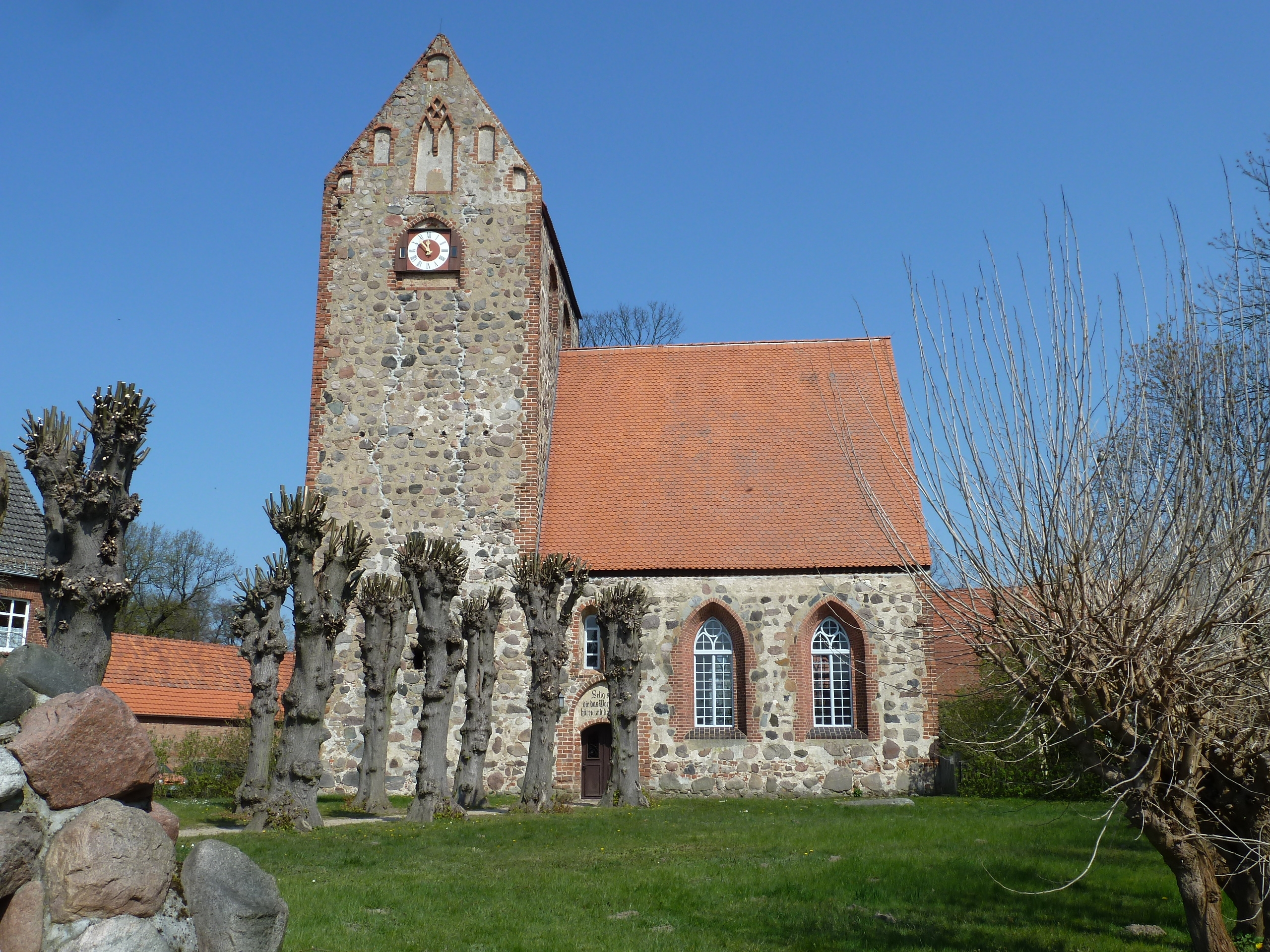 Zernitz church, Zernitz-Lohm municipality, Ostprignitz-Ruppin district, Brandenburg state, Germany